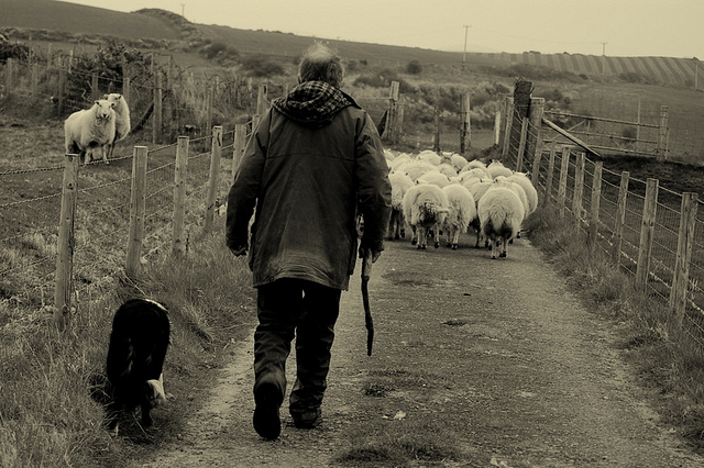 Farmer herding sheep in Wales, with his sheep dog, a border collie.